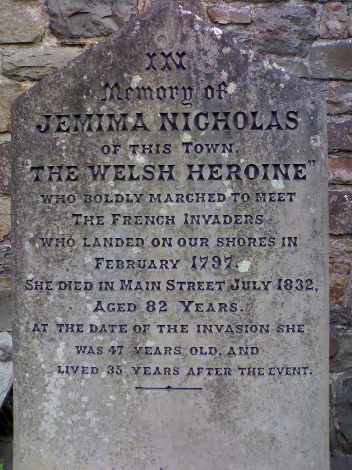 gravestone of Jemima Nicholas outside St Mary's Church, Fishguard